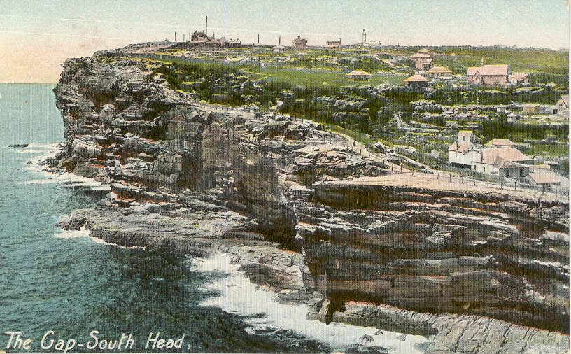 South Head, New South Wales, Australia. Historic view, also visible is Macquarie Lighthouse